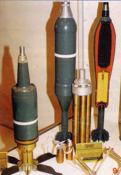 Polish artilery shells. From left cal. 122 mm HEAT for 2S1 Gwozdika, cal. 120 mm for mortars, and 120 mm RAP